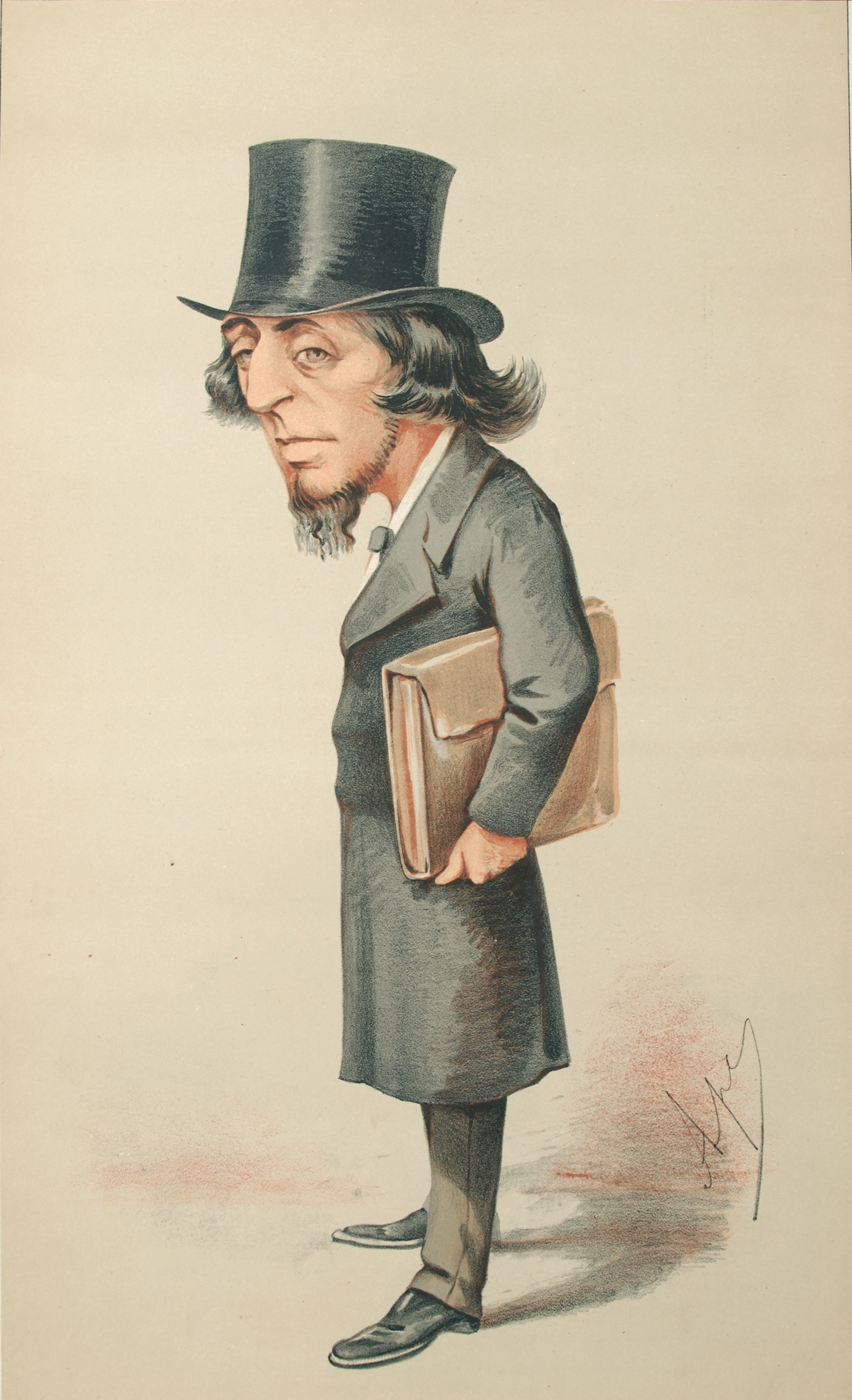 Statesmen No.10: Caricature of The Rt Hon James Stansfeld. Caption reads: "Pour encourager les autres."